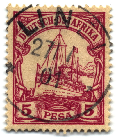 Scan of German East Africa 5p stamp of 1900, made by User:Stan Shebs